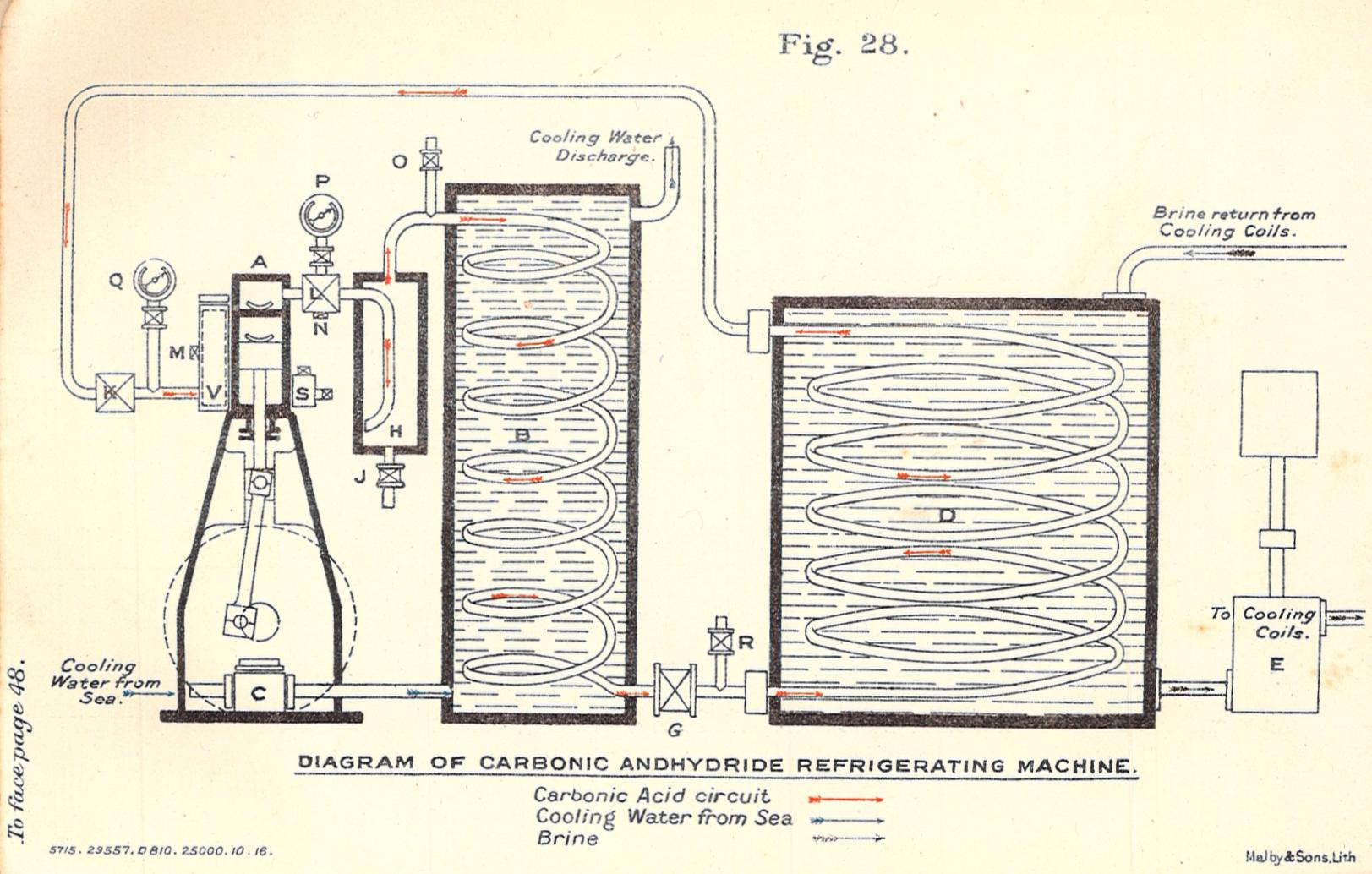 Carbonic anhydride refrigerating machine Early ship-board refrigeration plant End-section view. Scans from 'Stokers' Manual 1912', the Royal Navy's standard training handbook, "for engine-room ratings not entitled to the steam manuals and seamen under training in mechanical and stokehold work". See other images from this source in Scans from 'Stokers' Manual 1912'